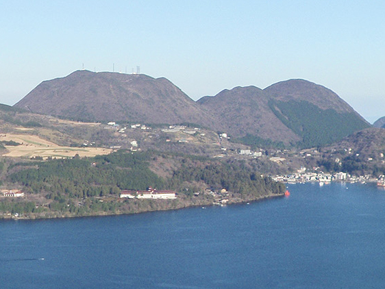 Mount Futago lava dome, Hakone volcano, Kanagawa prefecture, Honshu, Japan.